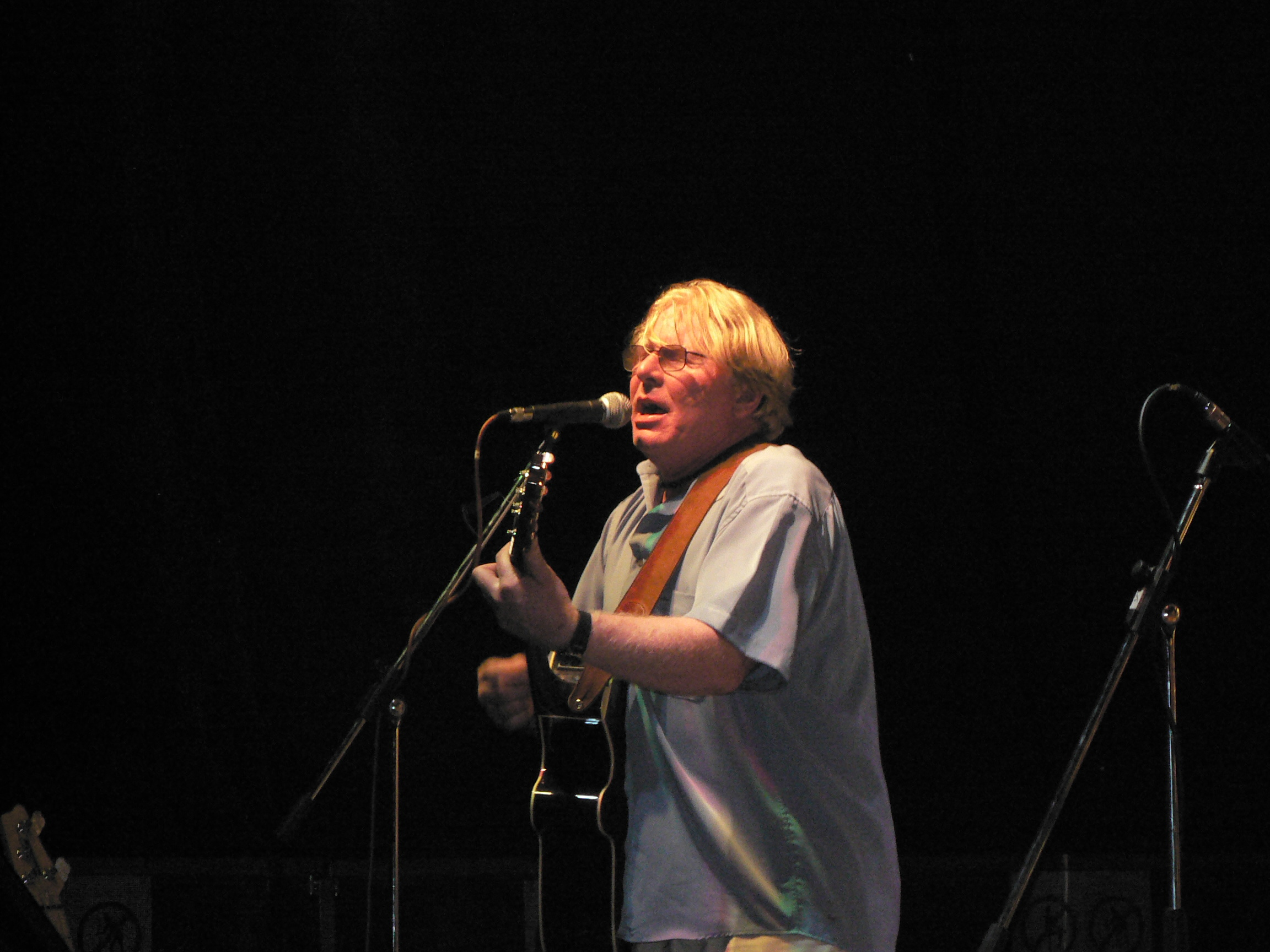 Live on the 8th of July, 2006. Ghymes band. Szikince, Felvidék. After several years, now it was possible for Párkány és Vidéke Kulturális Társaság (Párkány and Vicinity Cultural Association) to organise Ghymes Festival. The land, culture approves the message: we are home here. ©© Derzsi Elekes Andor, Budapest, 2013, You are authorised to use these photos and vids under Creative Commons – even for commercial, for profit purposes. Photos must be attributed to Derzsi Elekes Andor. All of the photos and vids in the Metapolisz DVD line are under Creative Commons and can be used even for commercial – for profit – purposes. Recommended Citation Derzsi Elekes Andor: Metapolisz DVD line A Ghymes Együttes illetve a Párkány és Vidéke Kulturális Társulás 5 éve tartó próbálkozását siker koronázta. Megrendezésre kerülhetett a SZIKINCE - GHYMES FESZTIVÁL. A rendezők felhívásukban ezt írják : „Vannak a Földnek olyan pontjai, ahol az ember a világ közepén érzi magát.” A táj, a civilizáció felerősíti az üzenetet : itt itthon vagyunk. A Szikince-Ghymes Fesztivál megrendezésével a rendezők egy ilyen itthon megteremtését tűzték ki célul: a felvidéki magyarság közösségteremtő, értékőrző összejövetelét szeretnék évről-évre megszervezni a Szikince- patak völgyében. A helyszínt – írják – nem véletlenül választották. Olyan tájat kerestek, ahol ezt a világközepe-érzést minden látogatójuk átélheti. A kép korábban Creative Commons alatt megjelent a Metapolisz 3 DVD -n (ISBN: 963-06-0413-2)